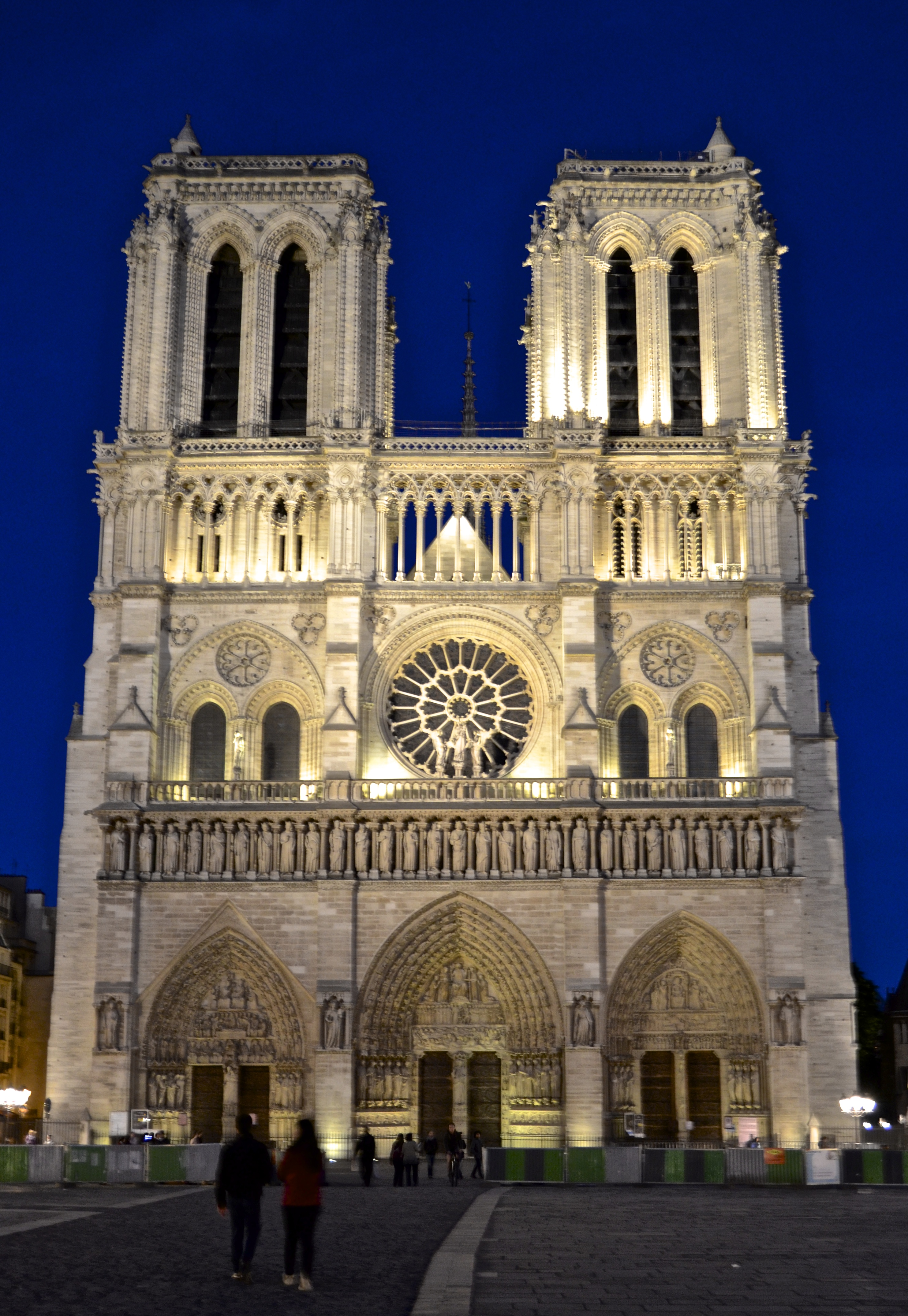 Notre Dame Cathedral at night, Paris.